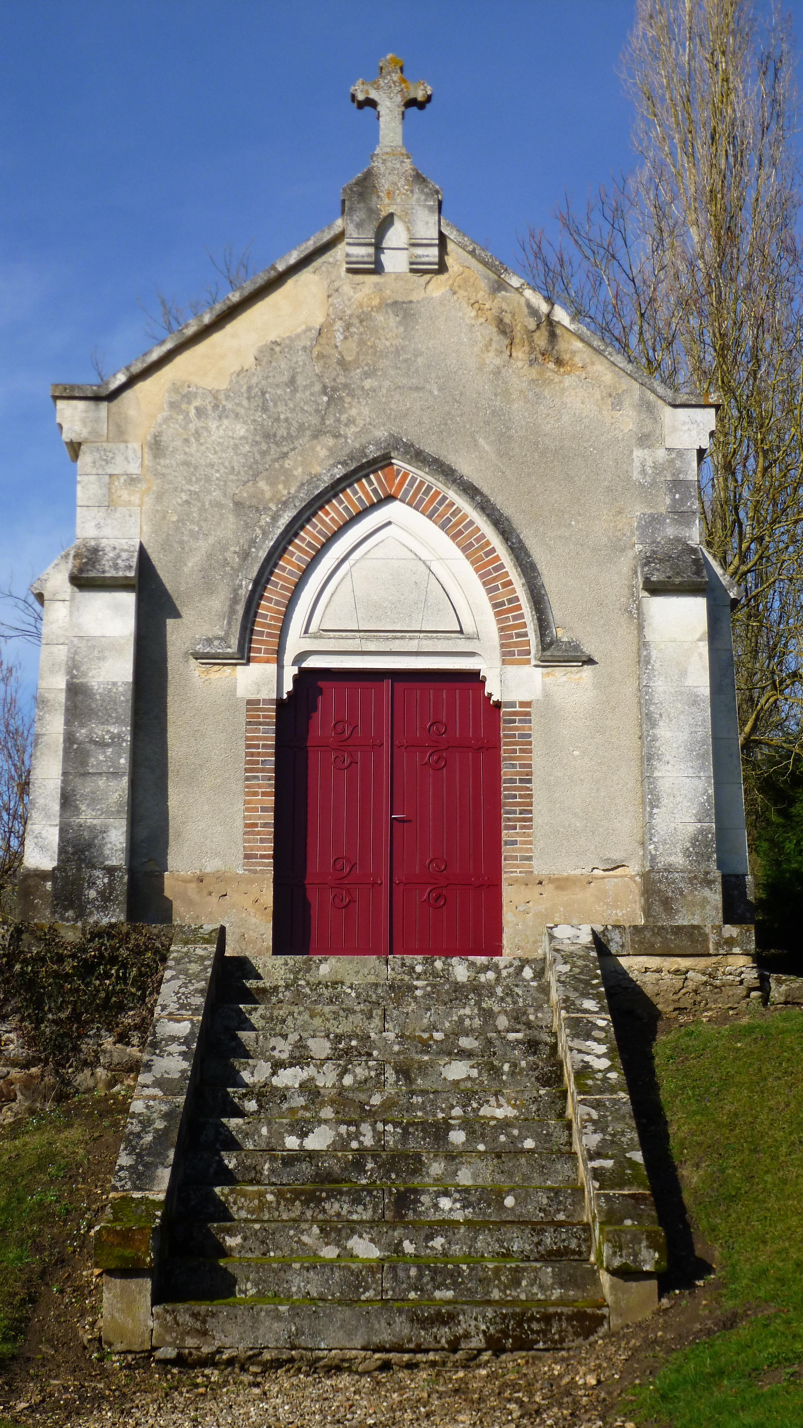 Tannerre-en-Puisaye, Yonne, Burgundy, France. Chapel near the cemetary on the road to Villiers-Saint-Benoît.